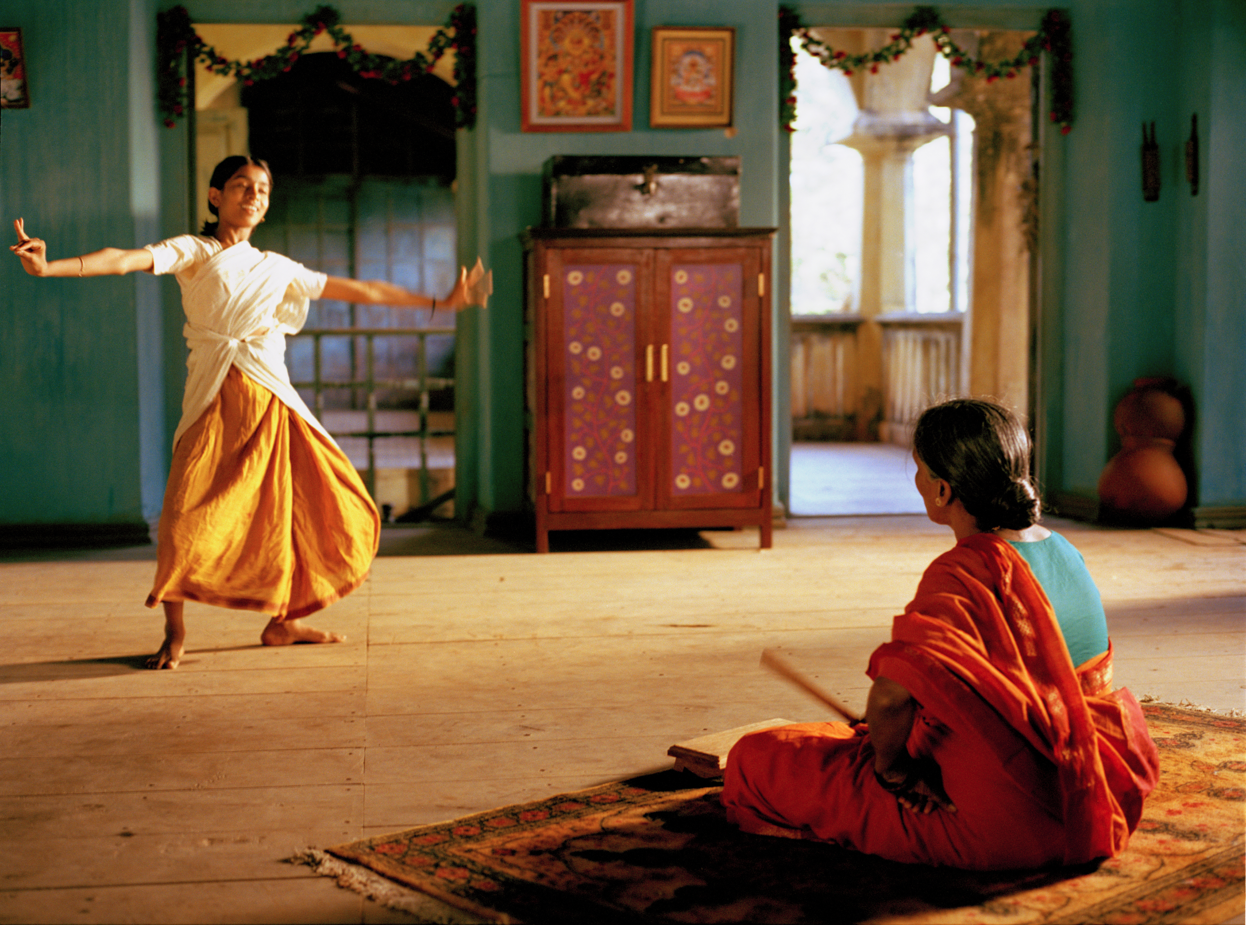 Vanaja, played by Mamatha Bhukya, dances a Kuchipudi Jati (short sequence set to a staccatto beat) from her mentor, the landlady Rama Devi (played by Urmila Dammannagari). Still of the film Vanaja, written, directed and edited by Rajnesh Domalpalli for his MFA thesis at Columbia University.